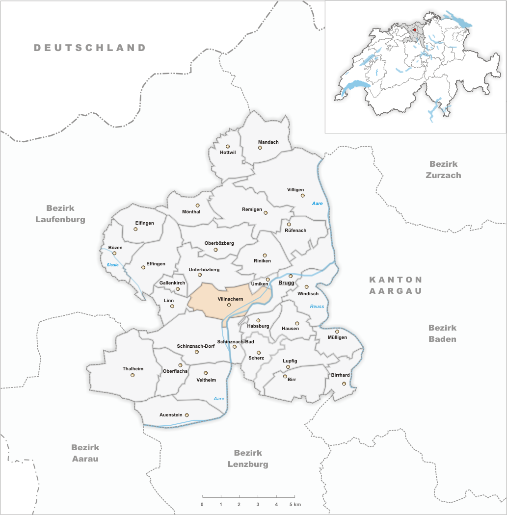 Municipality Villnachern